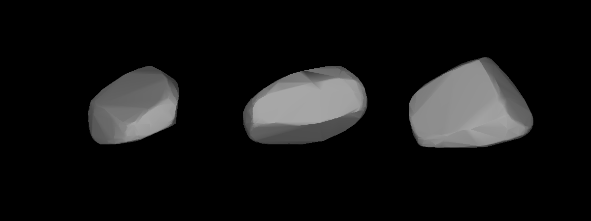 A three-dimensional model of 7632 Stanislav that was computed using light curve inversion techniques.